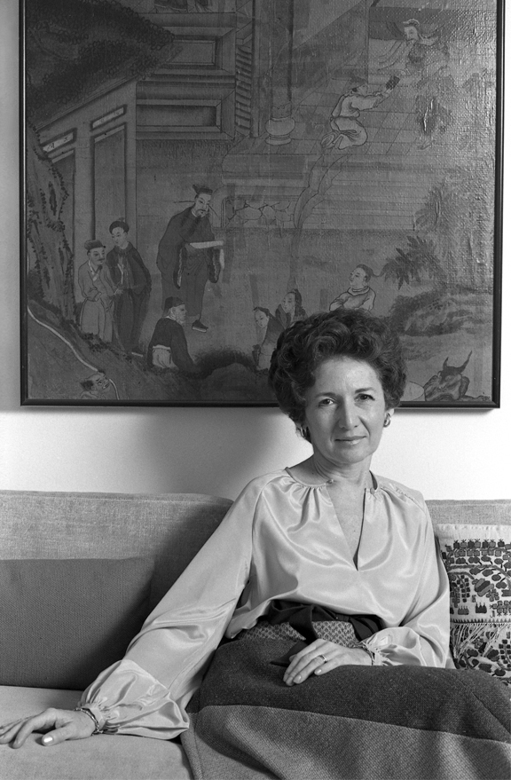 Ada Louise Huxtable photographed in her home, 1976 ©Lynn Gilbert